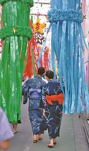 Tanabata Festival, Tokyo, Japan I took this photograph and contribute it to the public domain.